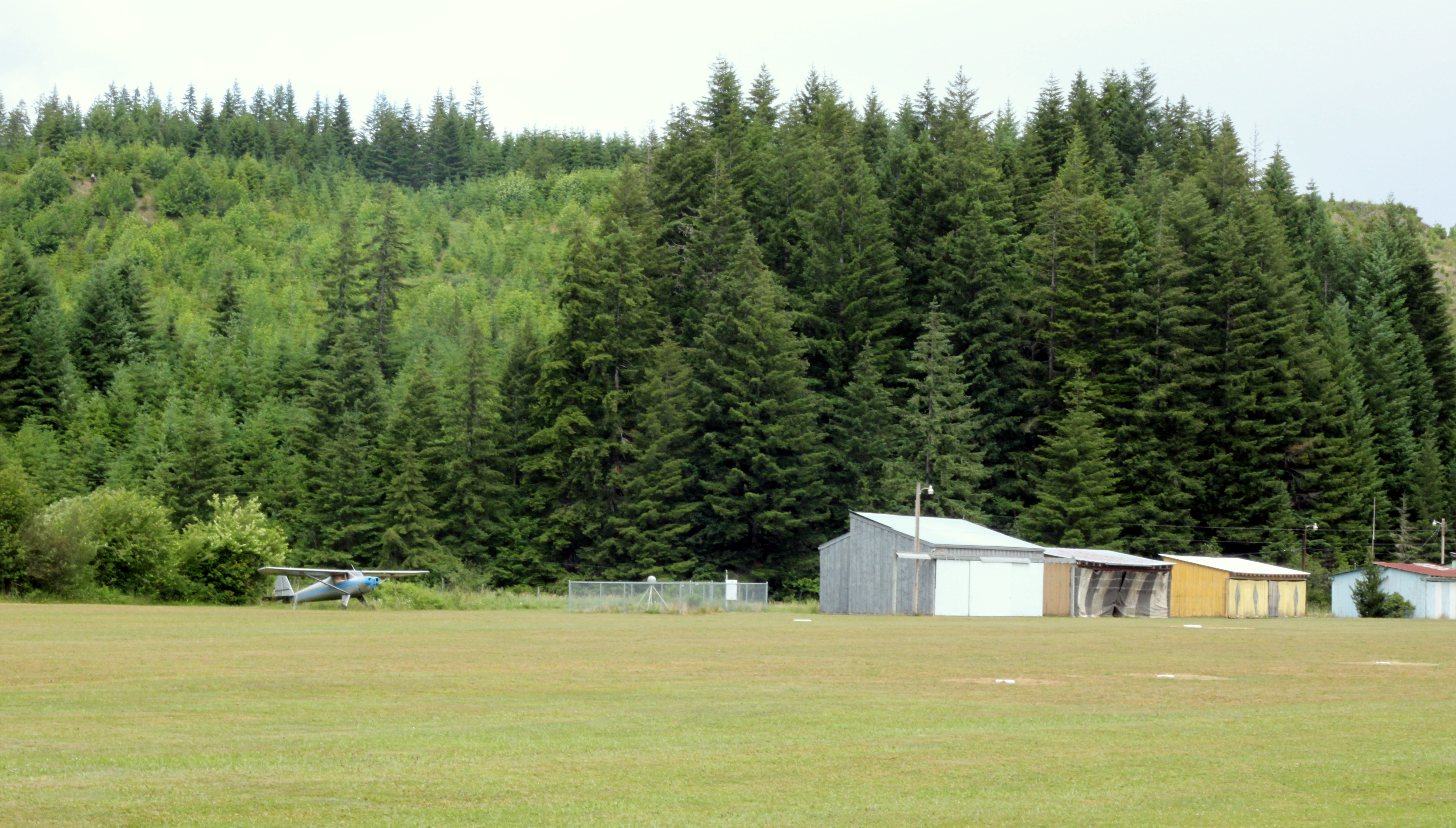 Vernonia Airfield near Vernonia, Oregon.